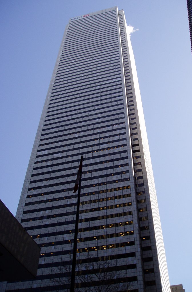 Taken by SimonP in April 2005